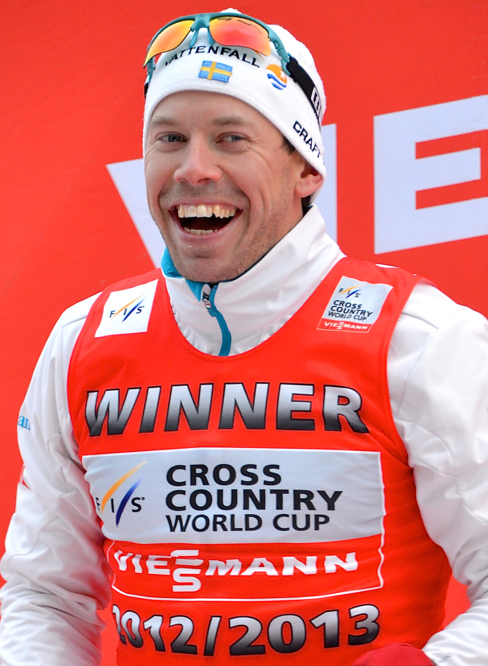 Emil Jönsson at the Royal Palace Sprint, part of the FIS World Cup 2012/2013, in Stockholm on March 20, 2013. Emil Jönsson wins sprint cup.